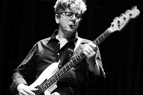 Audun Erlien at Reykjavik Jazz Festival 2015